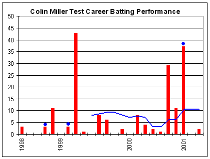 Test batting chart of Collin Miller. Red columns are the runs in the innings. Blue dots indicate not outs. Blue line is average in the last ten innings. Thanks to Raven4x4x for providing the template.